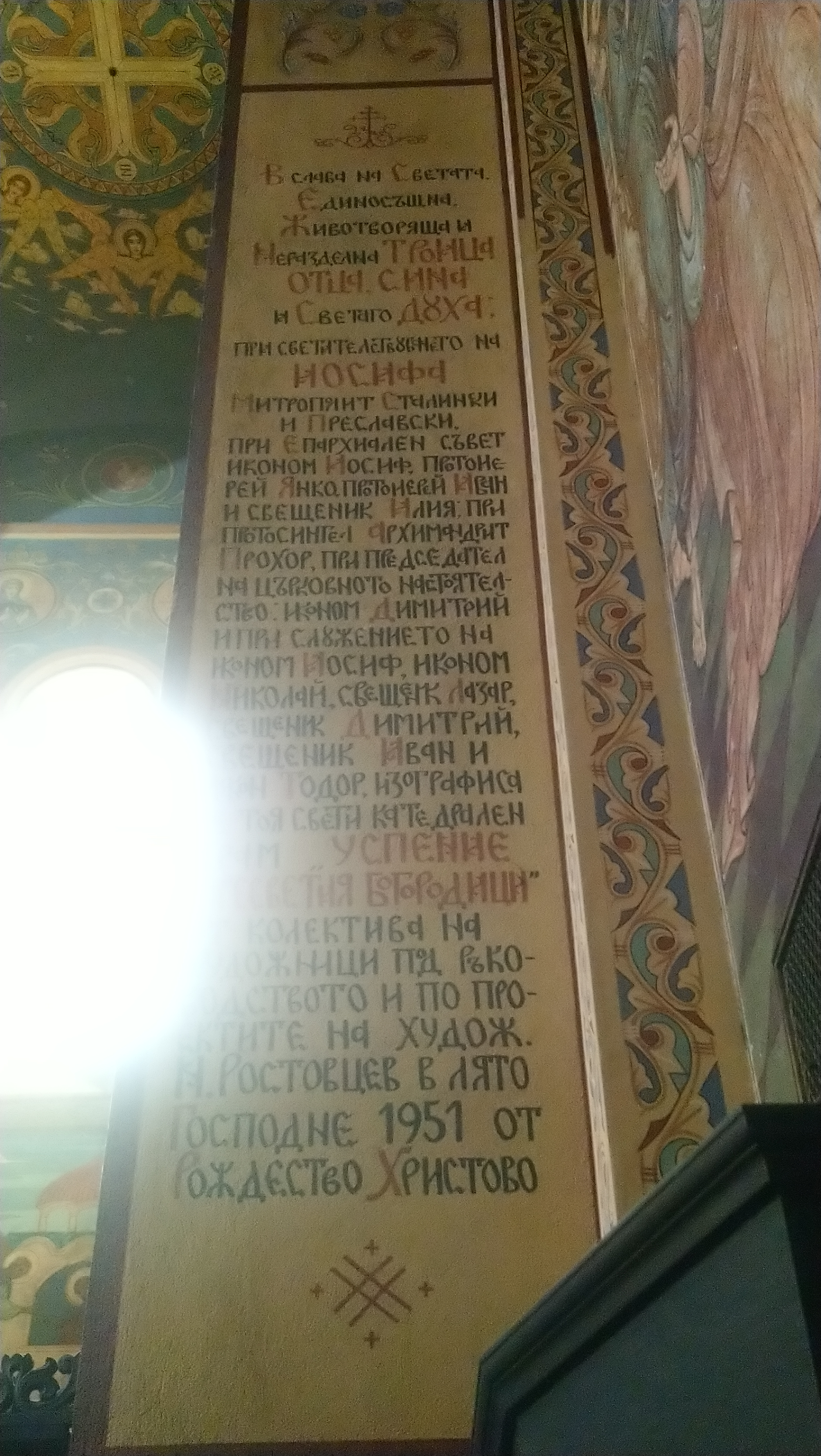 Information about the painters of the Varna Cathedral, including the name of the Russian-Bulgarian painter Nikolay Rostovtsev